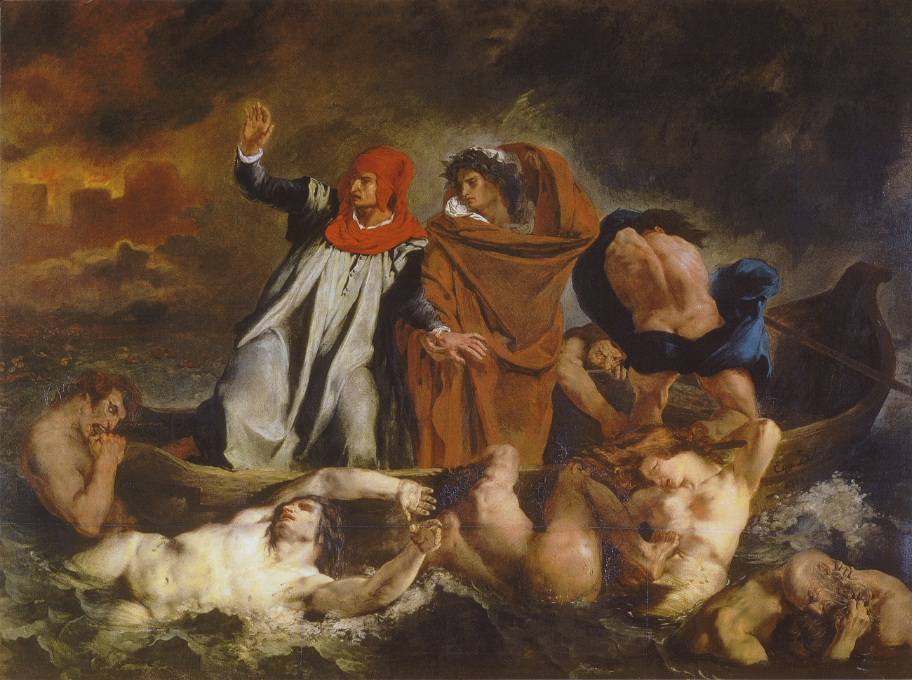 Dante and Virgil in Hell, Painting of Dante's »Divine Comedy, Inferno«, 8. Singing